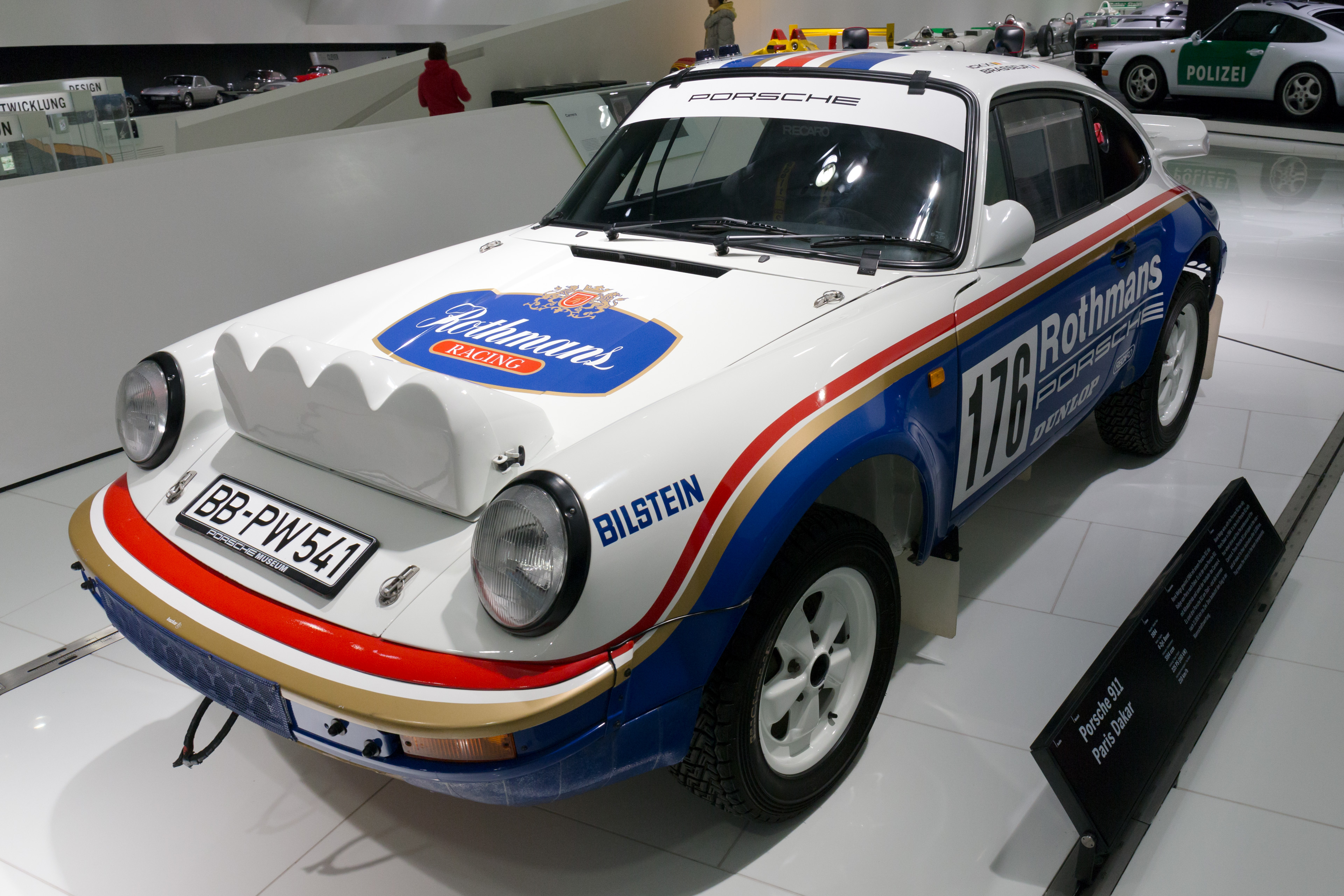 1984 Porsche 953 Paris Dakar